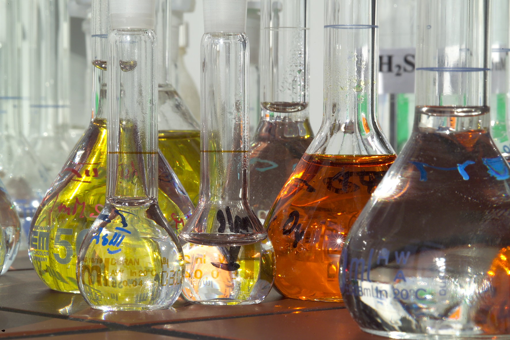 EMAS / Chemicals, Pollutants, harzadous substance